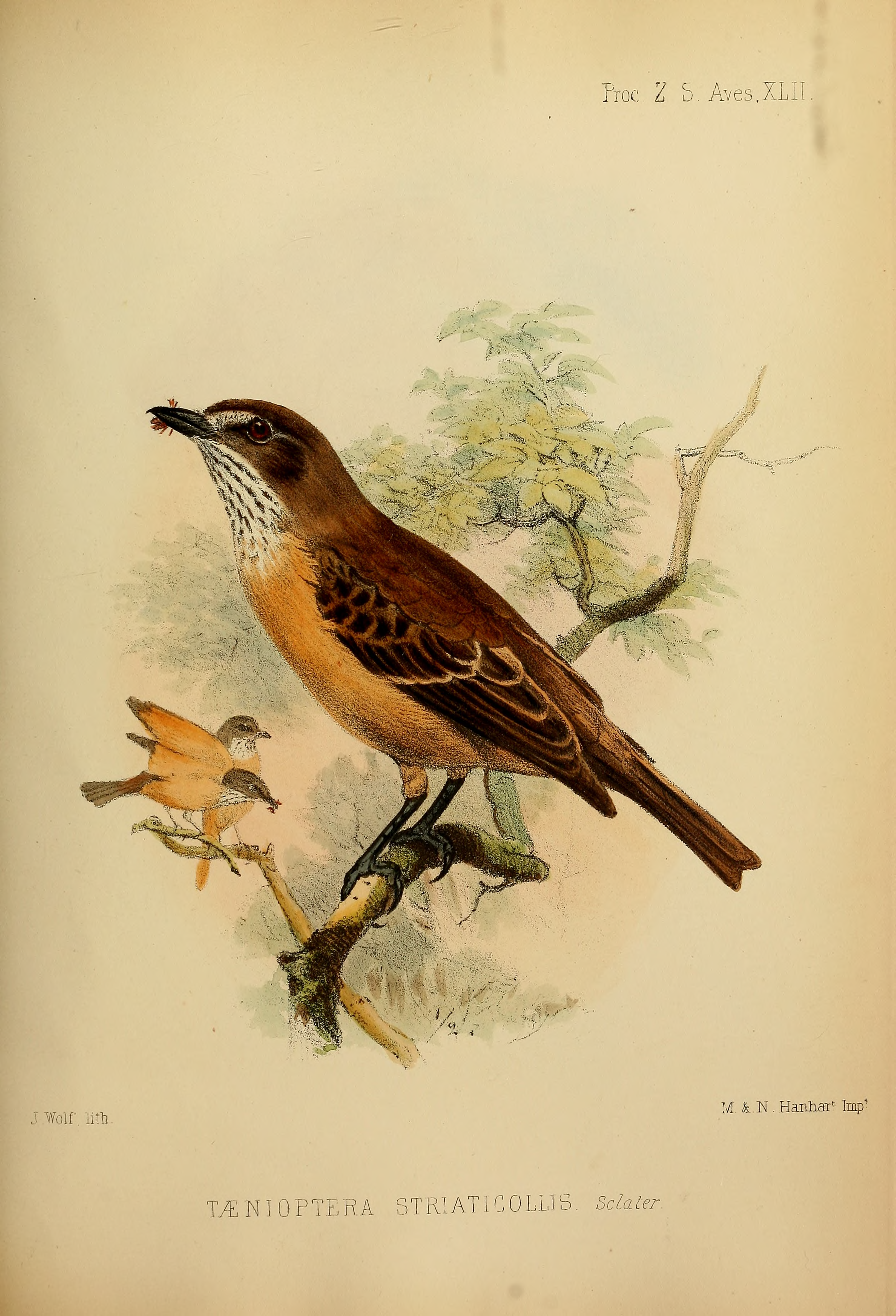 Streak-throated Bush-tyrant adults